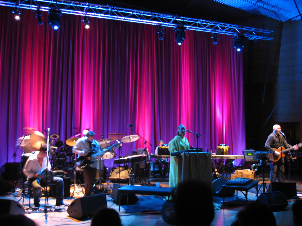 Dead Can Dance in concert